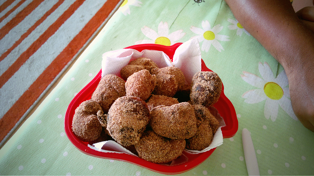 A bowl of Brazilian bolinho de chuva